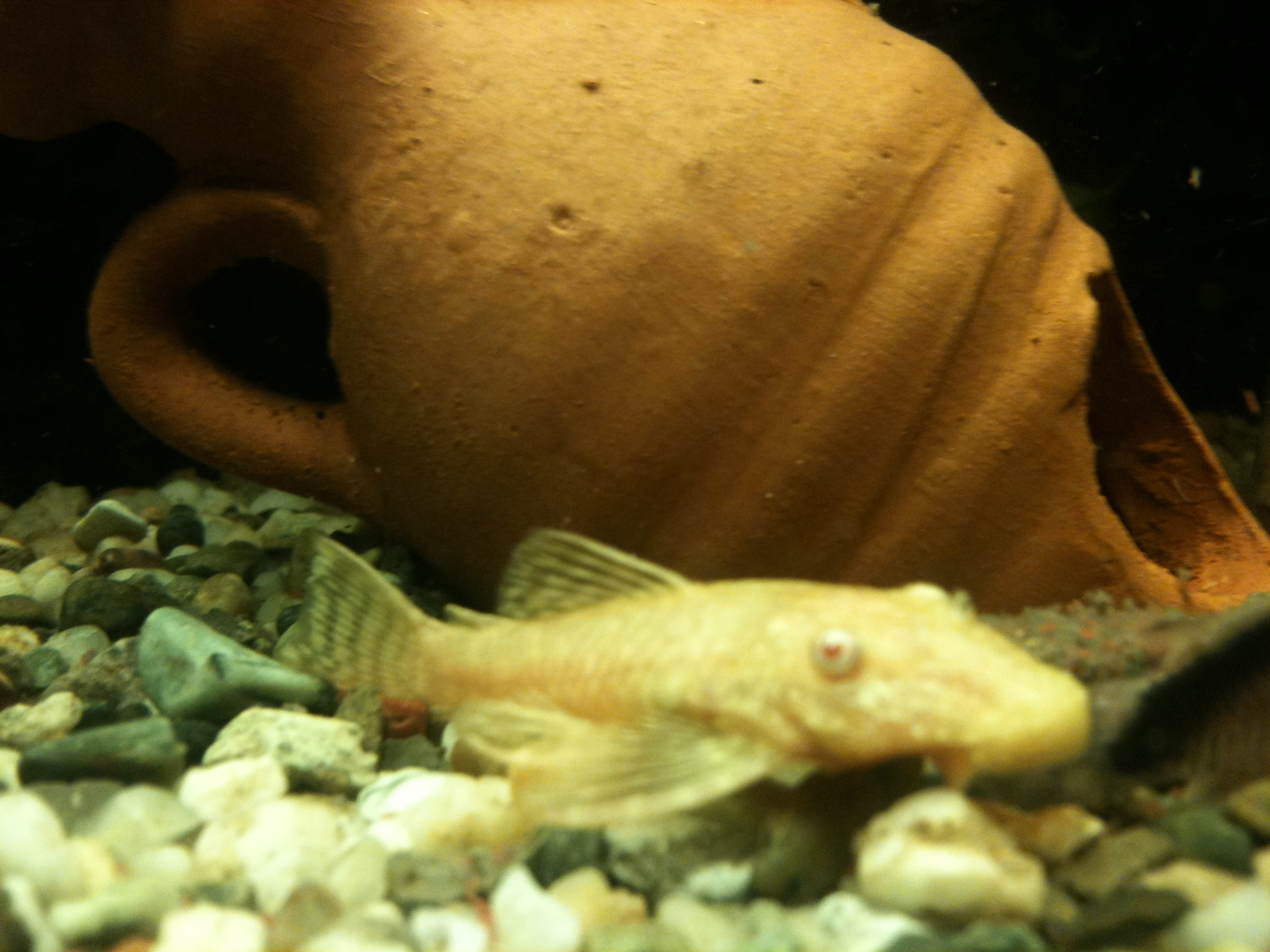 Gold Ancistrus